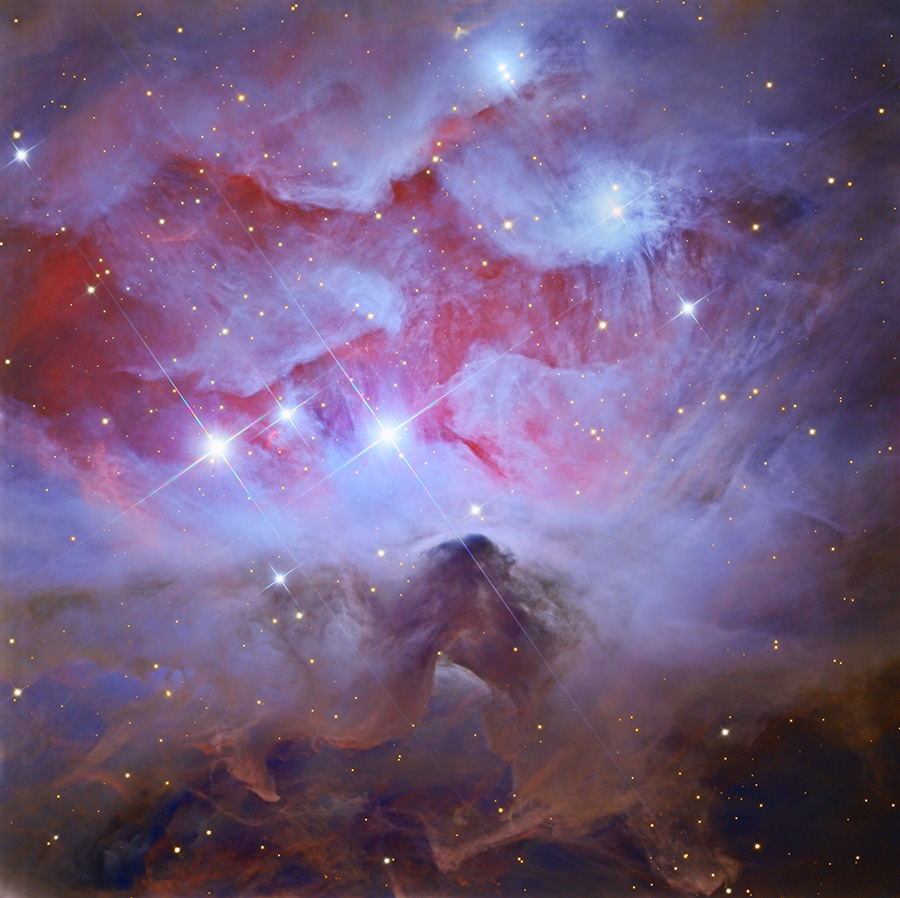 Optics 32-inch Schulman Telescope (RCOS) Camera SBIG STX16803 CCD Camera Filters Astrodon Gen II Date November - December 2015 Location Mount Lemmon SkyCenter Exposure RGB = 7 : 7 : 7 Hours Acquisition Astronomer Control Panel (ACP), Maxim DL/CCD (Cyanogen), FlatMan XL (Alnitak) Processing CCDStack, Photoshop CC, PixInsight Credit Line & Copyright Adam Block/Mount Lemmon SkyCenter/University of Arizona